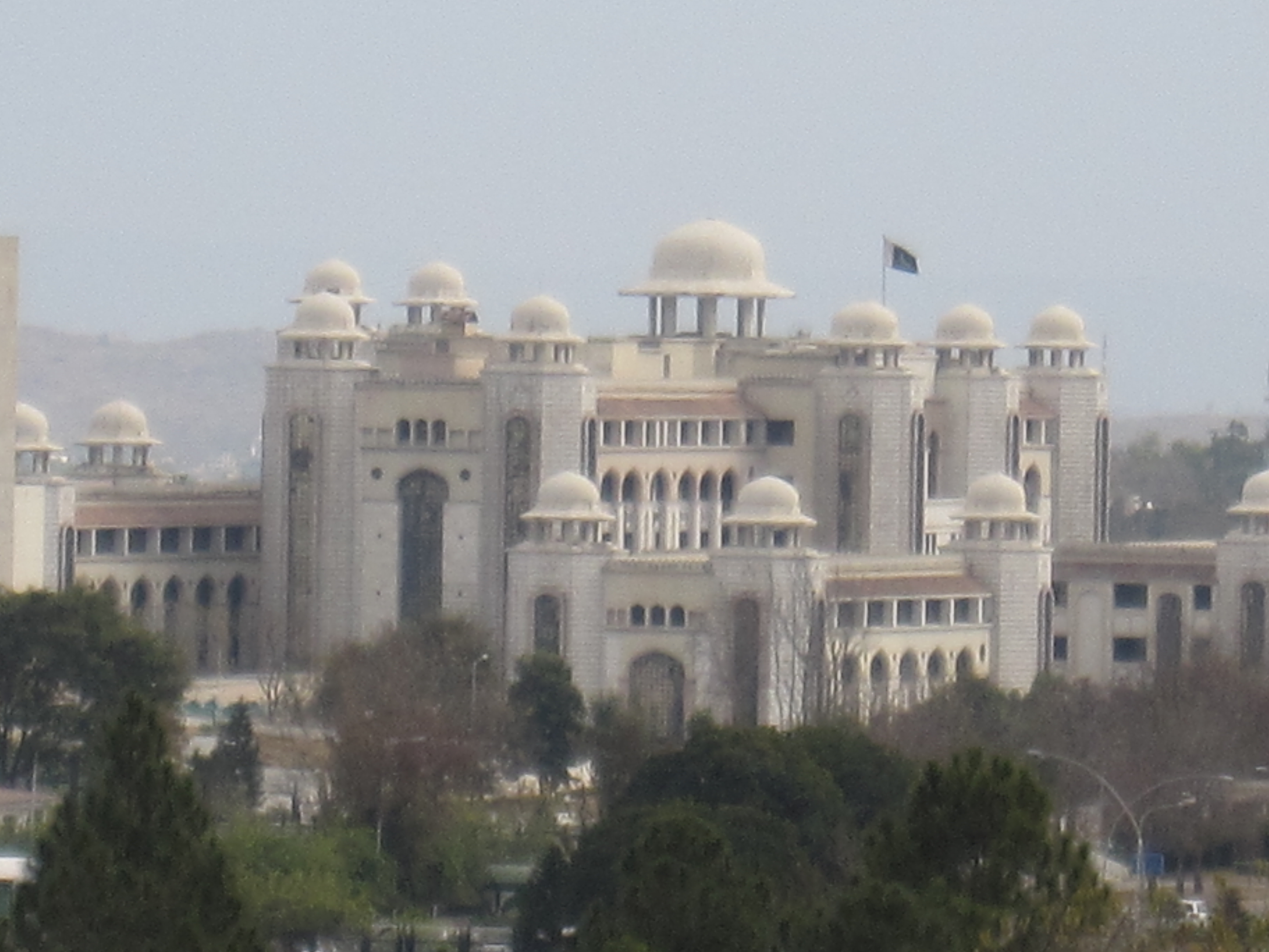 Prime Minister's Secretariat This is a photo of a monument in Pakistan identified as the ICT-11